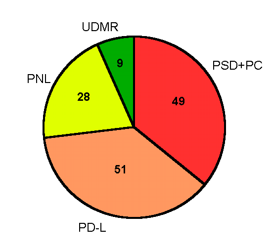 Results of parliamentary elections in Romania 2008-11-30 Seats Senate